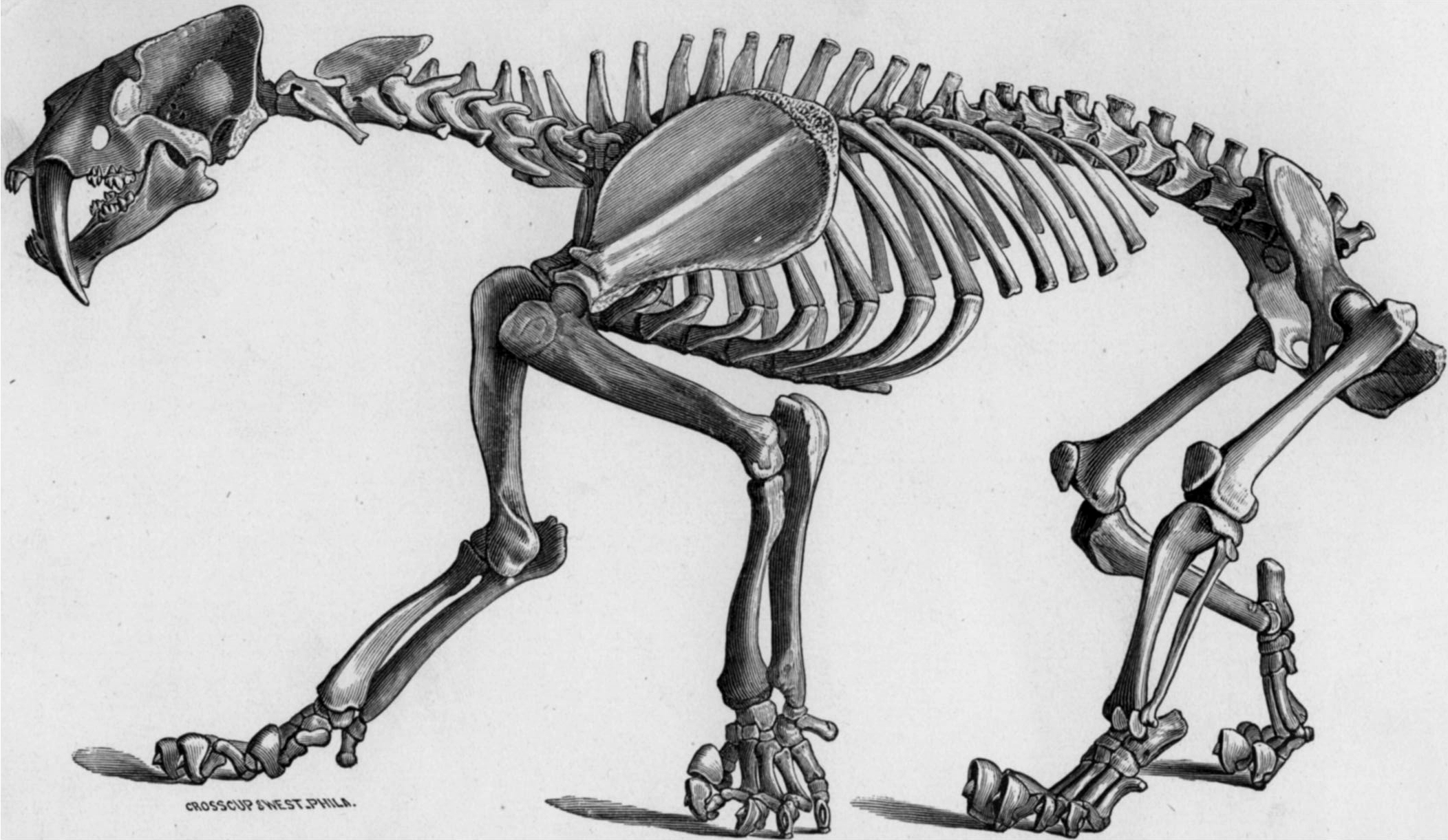 Skeletal restoration of Smilodon populator (formerly S. necator).